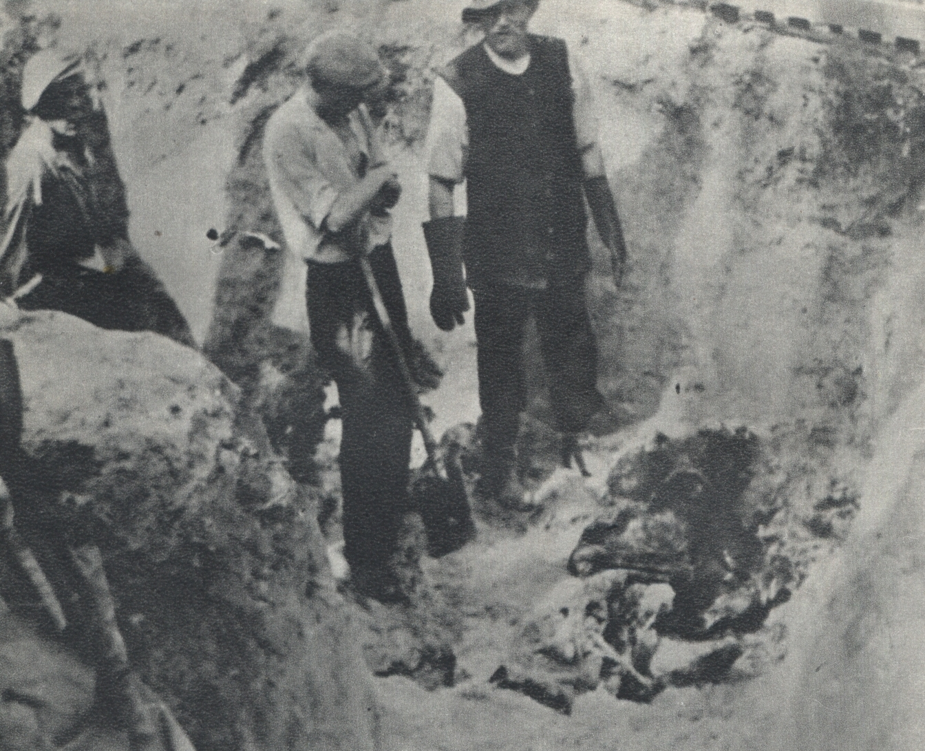 Exhumation of bodies of victims massacred by Nazi-Germans at the beginning of 1943 in the Lasy Chojnowskie (Chojnowskie Forest) near Warsaw. Photo taken in summer 1946.